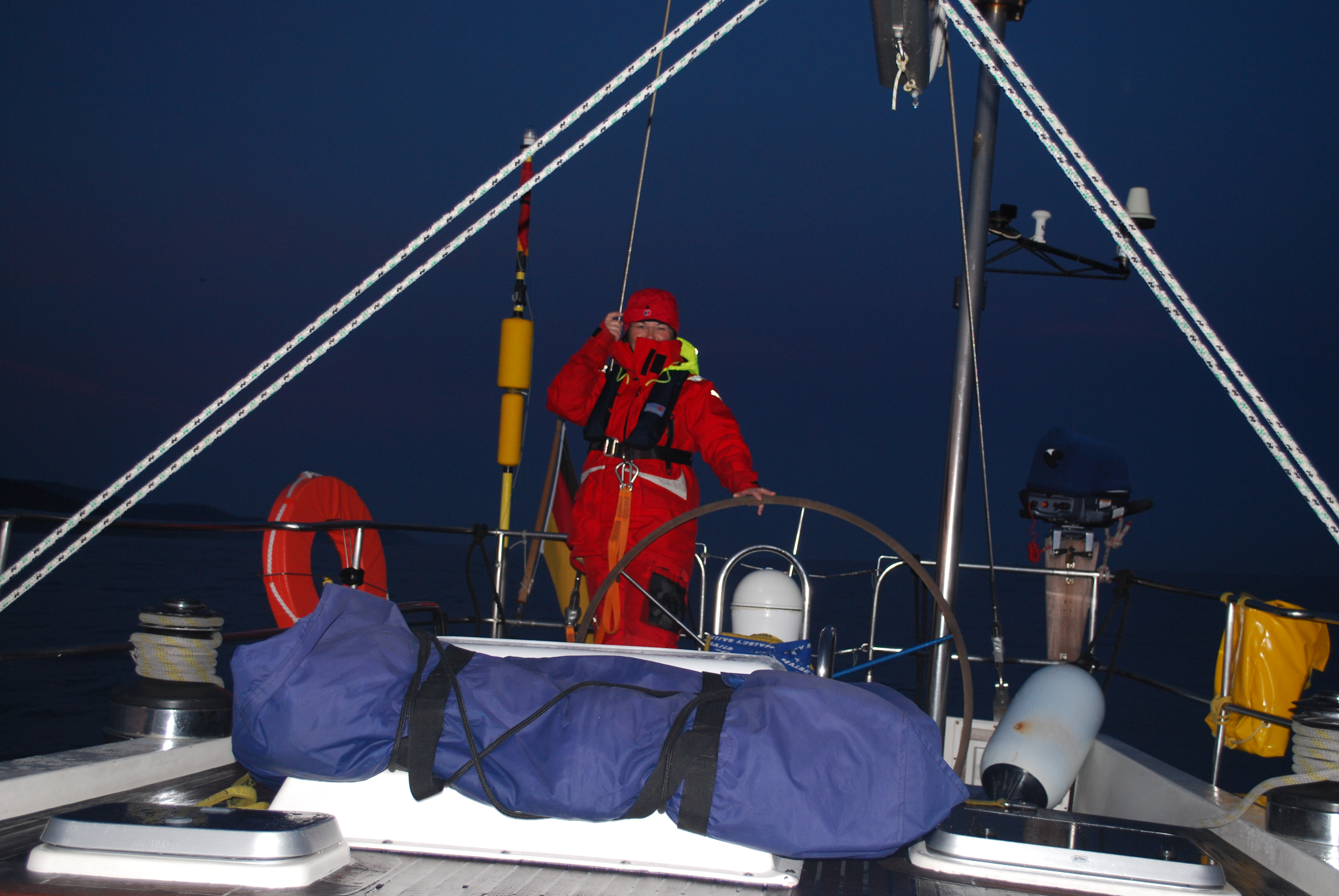 Sailor at the helm at night in full gear, including life jacket. She's tied to the boat with her life belt.